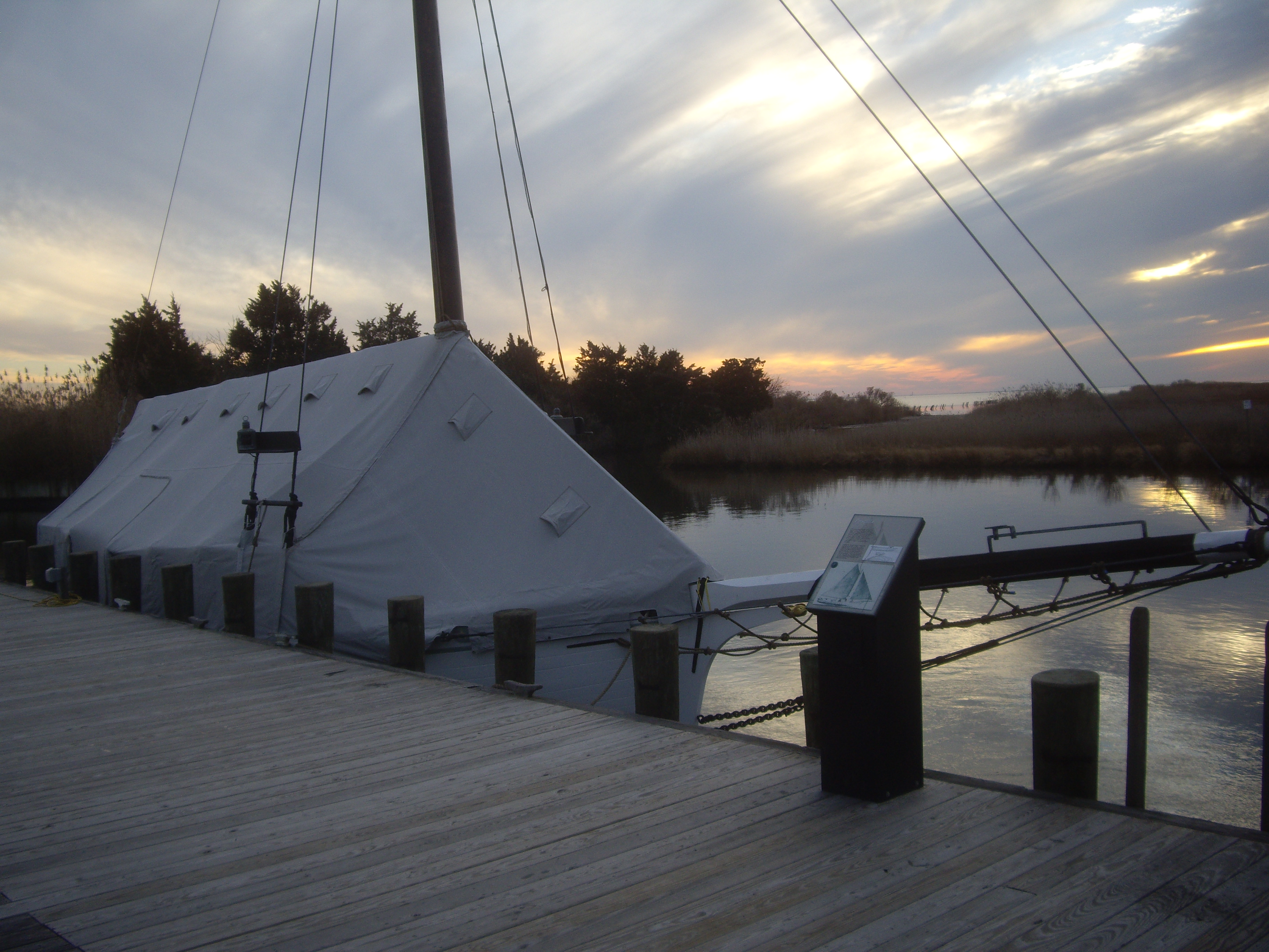 Priscilla Sloop bundled up for Winter